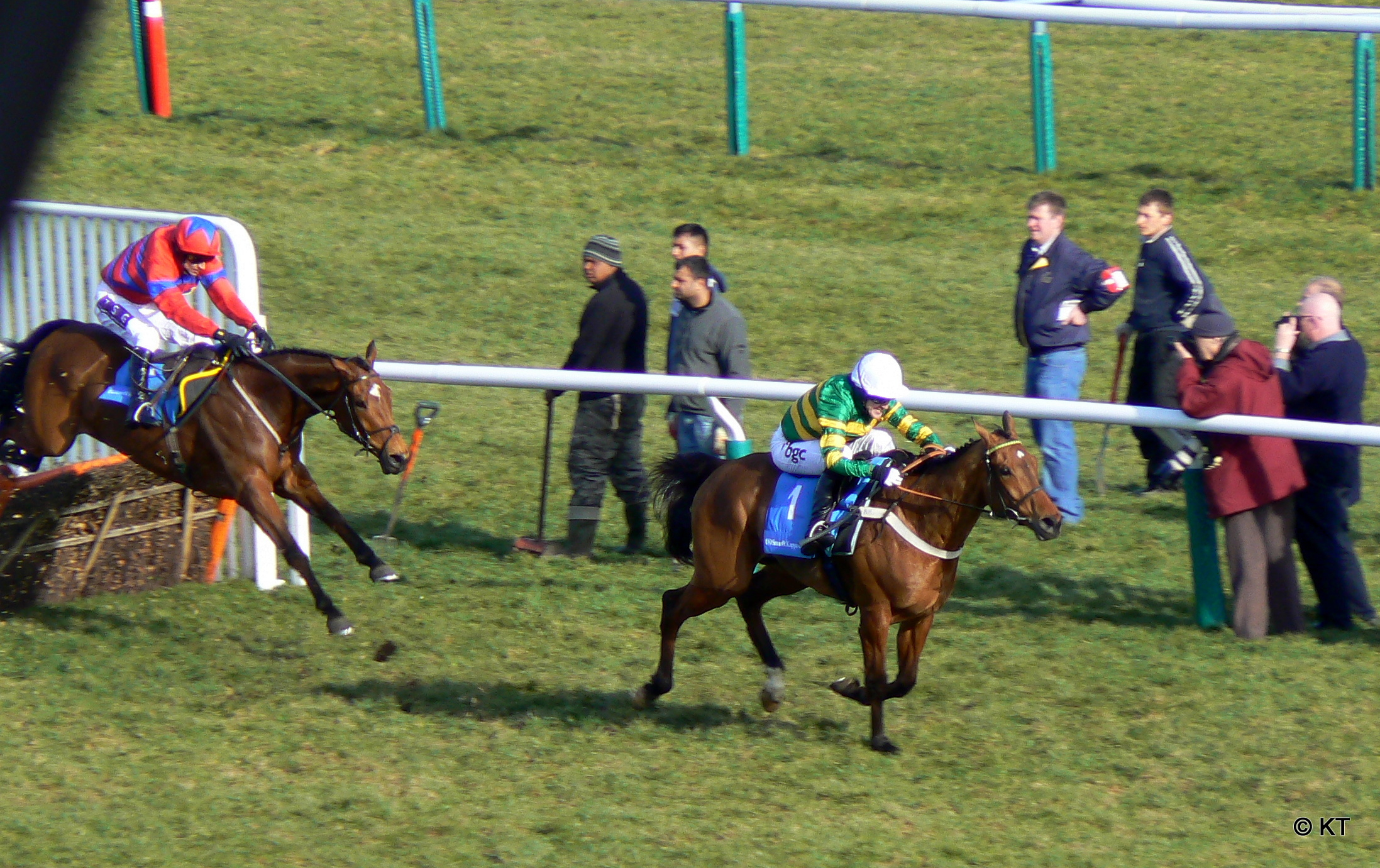 The Champion Hurdle, Cheltenham Festival 2010.